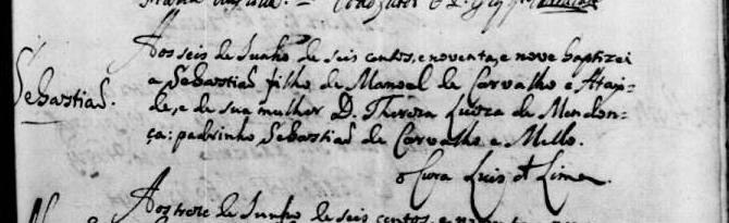 Baptism register (at the time, the equivalent of a birth record) of Sebastião José de Carvalho e Melo, Marquis of Pombal (1699-1782), dated 6 June 1699. Mercês Parish, Lisbon.